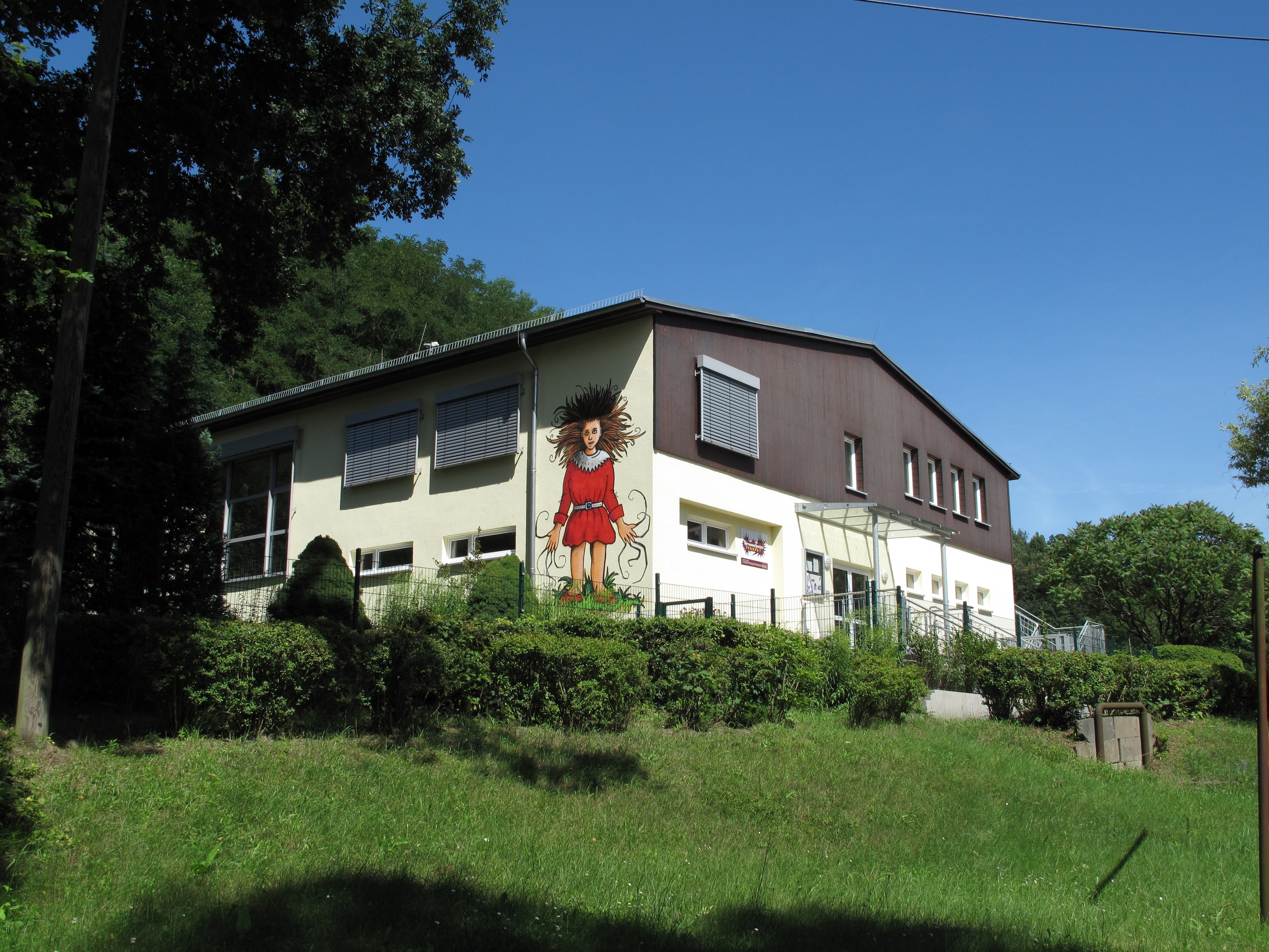 „Schule am Tornowsee“ in Tornow. Tornow is a hamlet of Pritzhagen, a village of the municipality Oberbarnim in the District Märkisch-Oderland, Brandenburg, Germany. The former demesme with a manor house from 1912 is today separated into a special education school („Schule am Tornowsee“) and a hotel with integrated work/job- and rehabilitation-training for people with mental disorders („Haus Tornow am See“). Tornow is situated at the northern bank of the Große Tornowsee (lake).